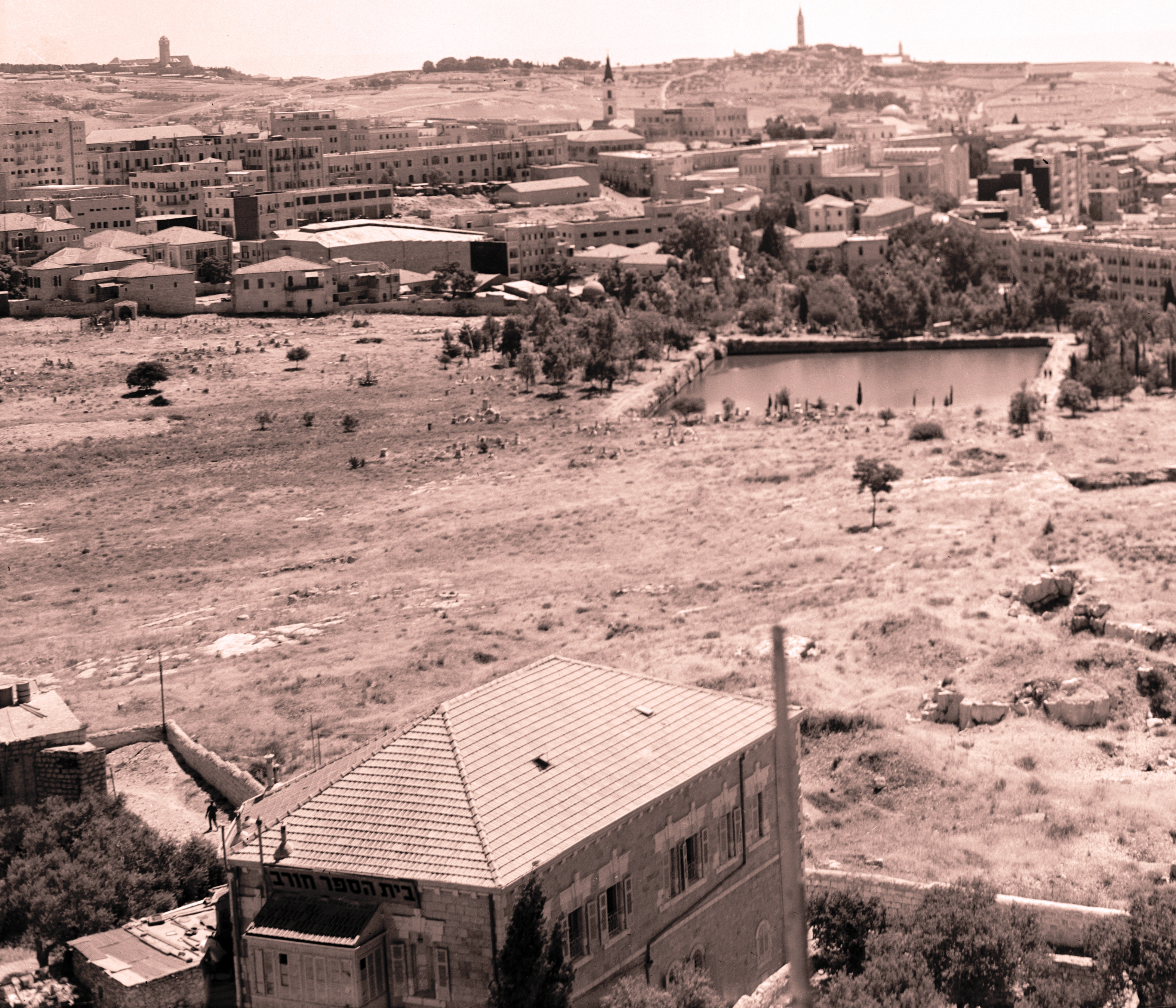 Church of the Holy Sepulchre and surroundings. Upper Pool of Gihon